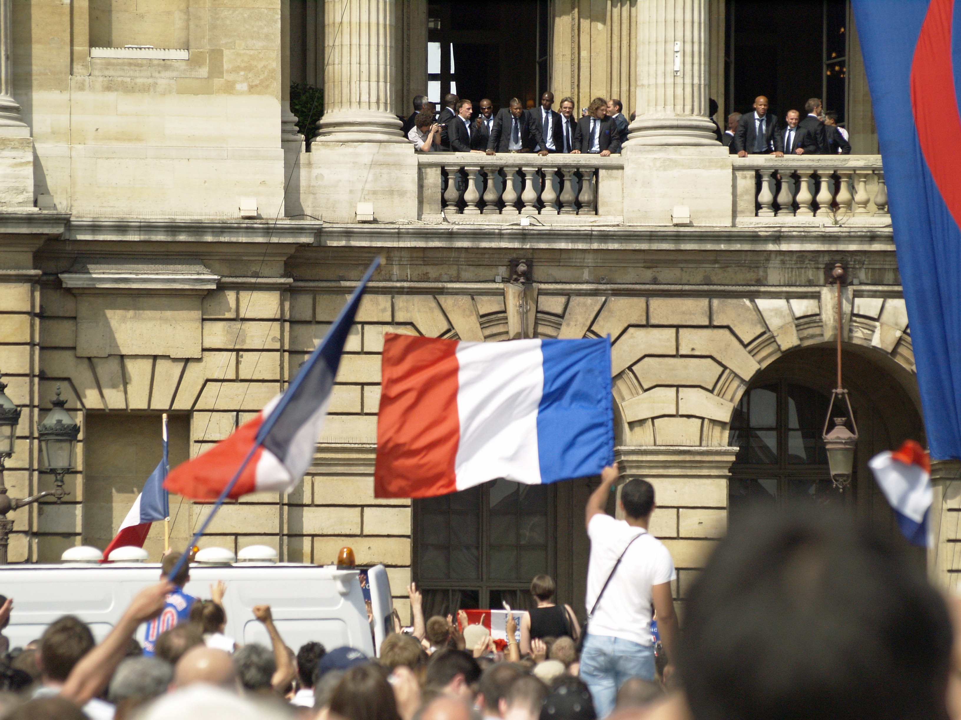 French national football (soccer) team meet the crowds on Place de la Concorde after 2nd place in World Championships on July 10, 2006.